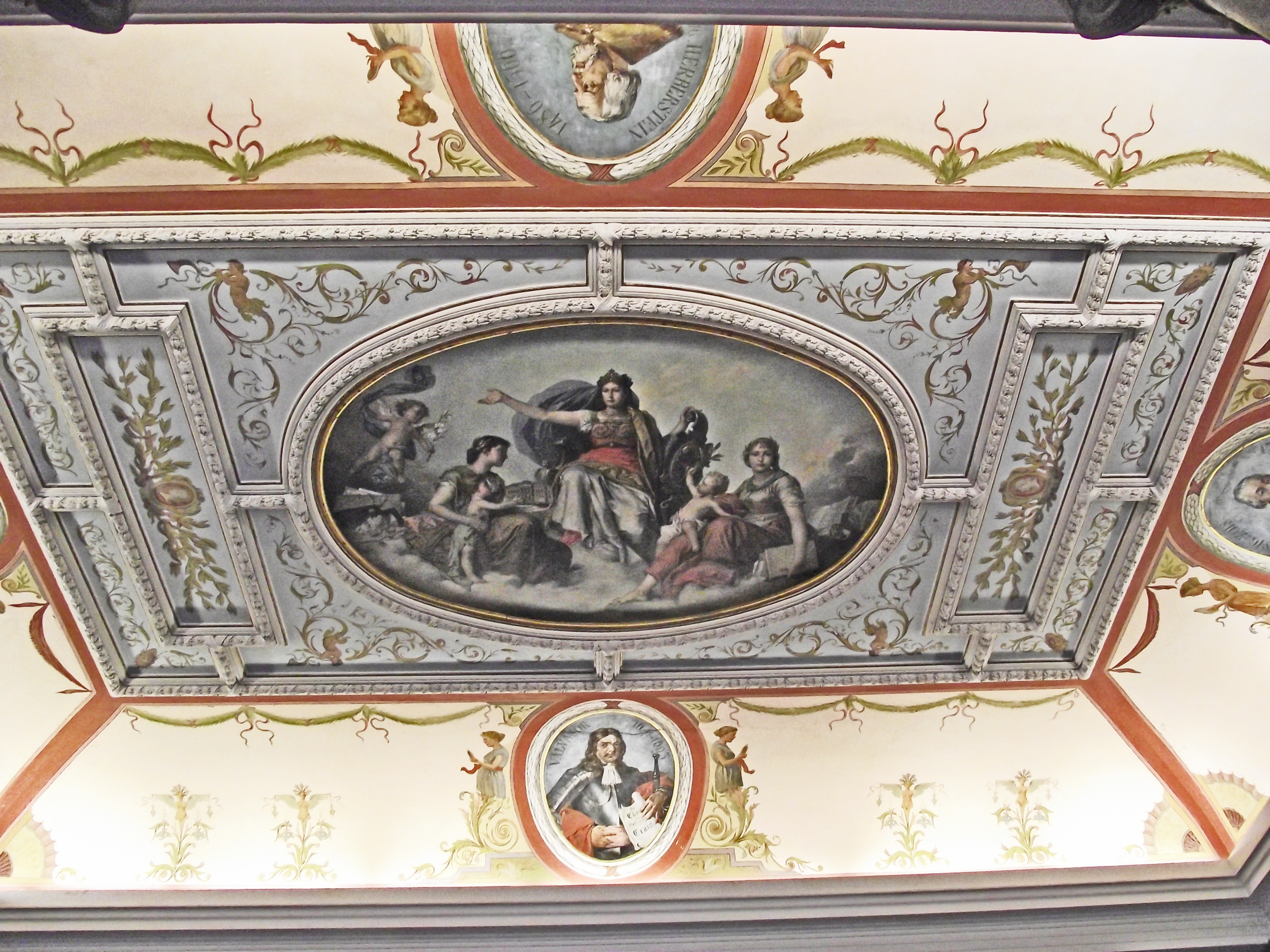 Ljubljana - National Museum: Roman Artefacts